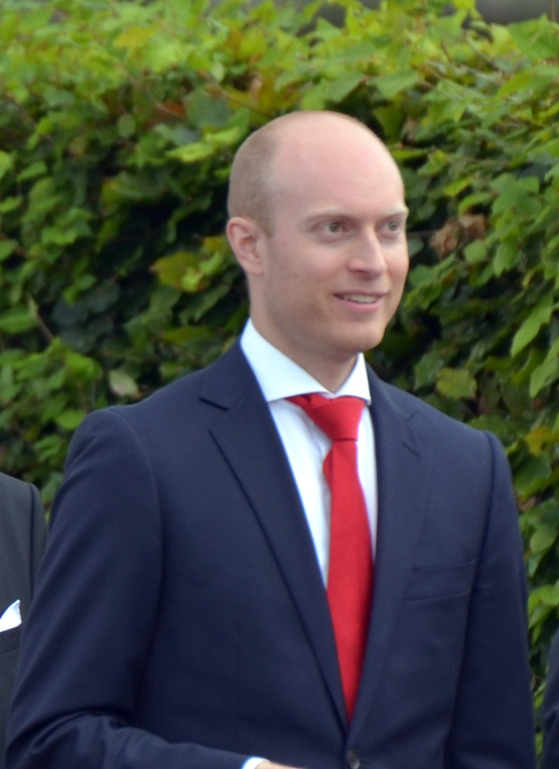 Karl Sigfrid, member of the Riksdag for the Moderate Party.